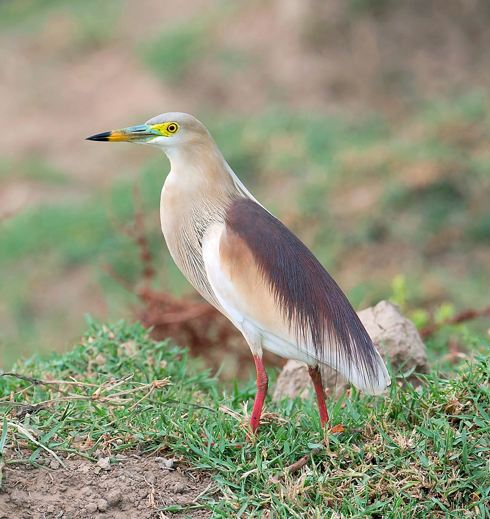 Indian Pond Heron (Ardeola grayii) a nondescript plain-Jane assumes stunning deep maroon and brownish golden plumage at breeding time. Red legs and lanceolate plume at the back of the head complete the transformation. Seen in Basai Wetlands on the outskirts of Gurgaon.